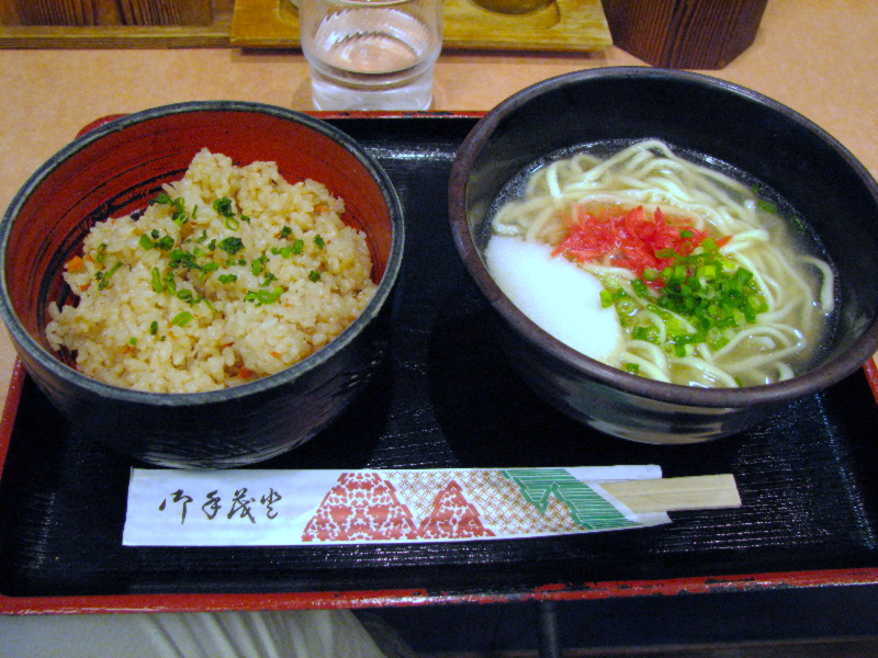 Jyusi coocked rice